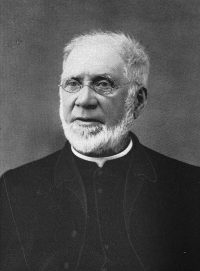 Photograph of R. W. Oliver, the first Chancellor of the University of Kansas. From Google Books archive: Title Quarter-centennial history of the University of Kansas, 1866-1891 Authors Wilson Sterling, James Burrill Angell, Carrie M. Watson, Arthur Graves Canfield, D. H. Robinson Editor Wilson Sterling Publisher G.W. Crane & co., 1891 Original from the University of Michigan Digitized Jun 26, 2007 Length 198 pages